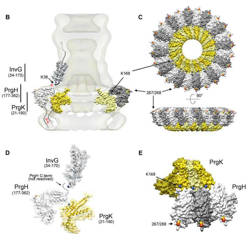 Topographic model of the T3SS needle complex from Salmonella typhimurium. A model for the localization of the proteins InvG, PrgH, and PrgH within the base of the needle complex is shown. The symmetrical nature of the base can be seen in image C.